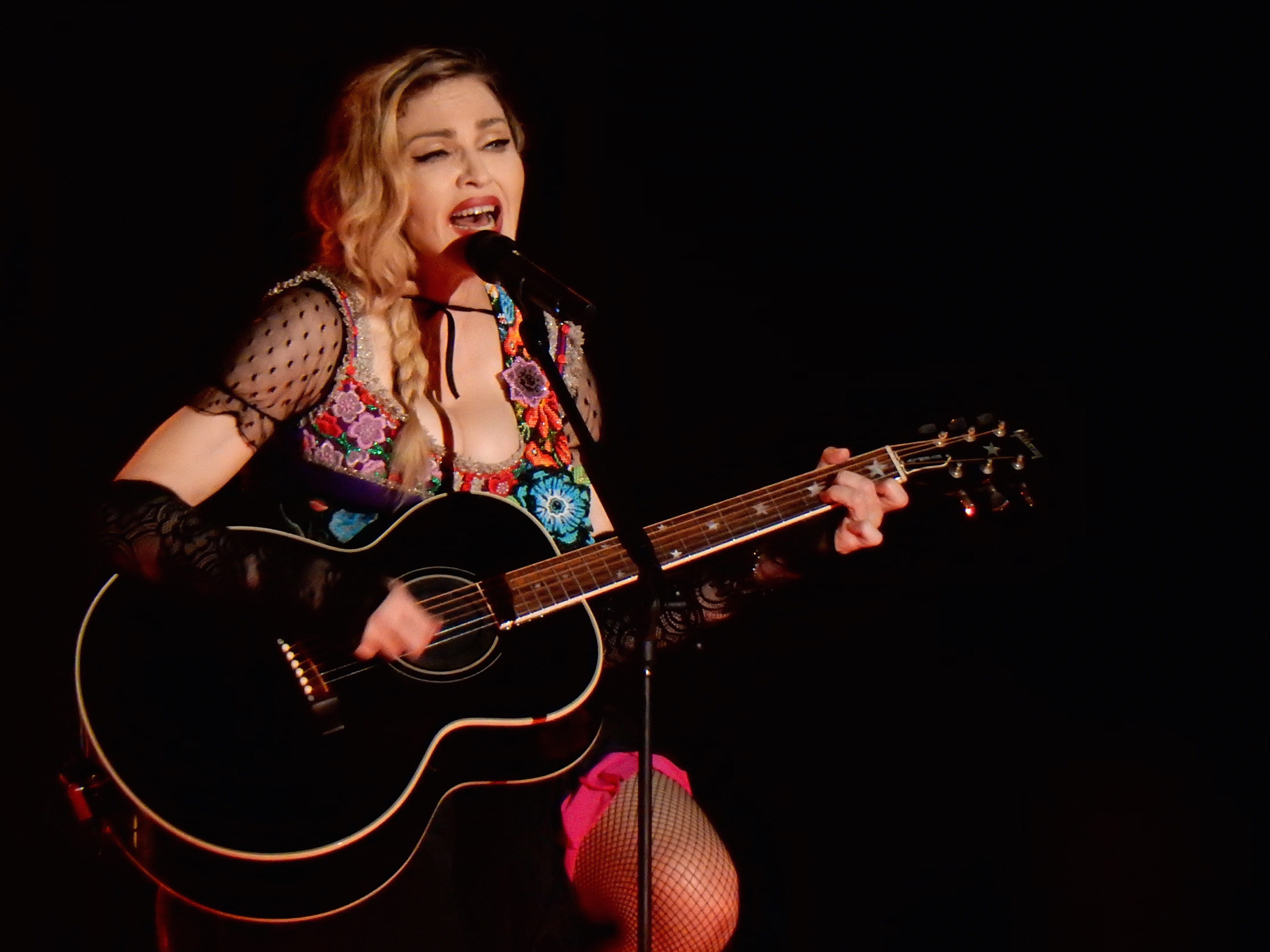 Madonna - Rebel Heart Tour 2015 - Washington DC